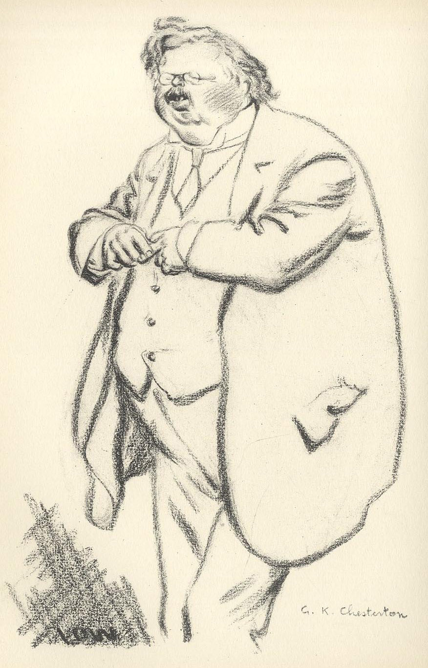 Caricature of G.K. Chesterton in Lions and Lambs.